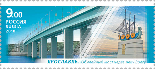 Jubilee Bridge in Yaroslavl (stamp)